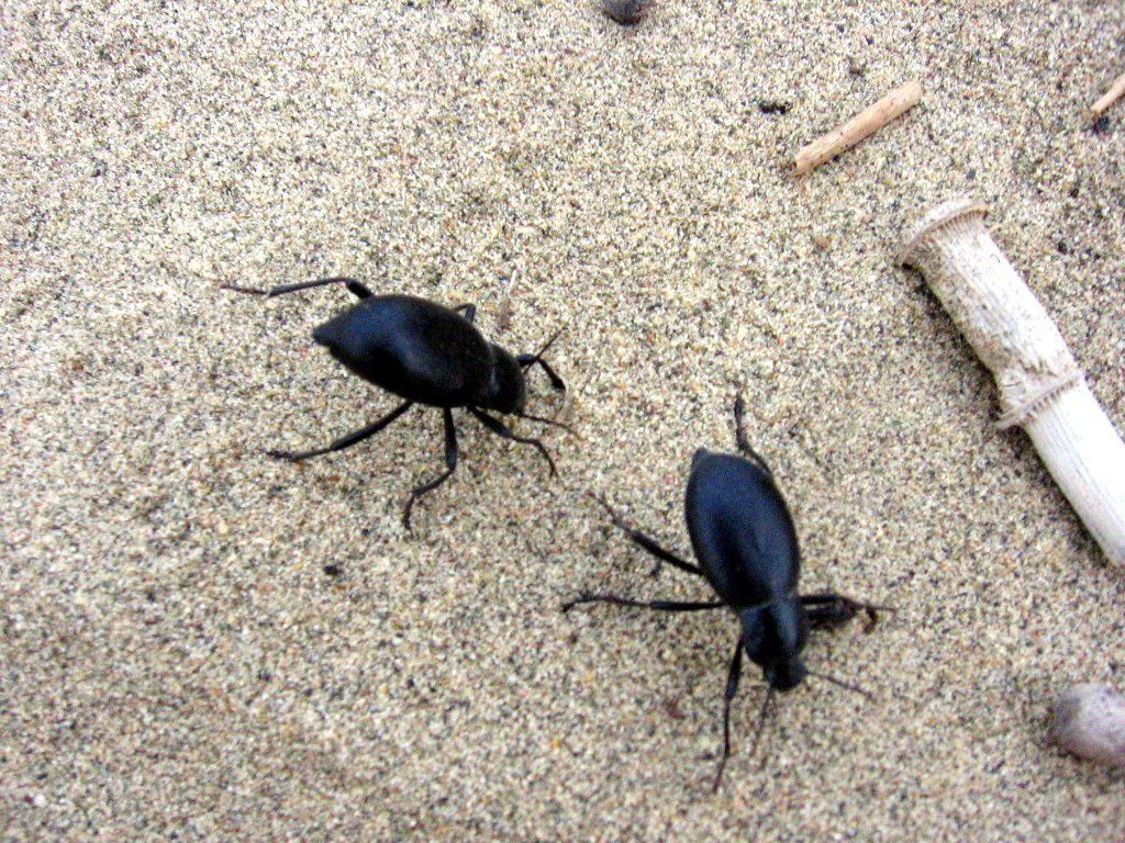 Beetles in Taklamakan desert near Yarkand, Autonomous Region of Xinjiang, China.